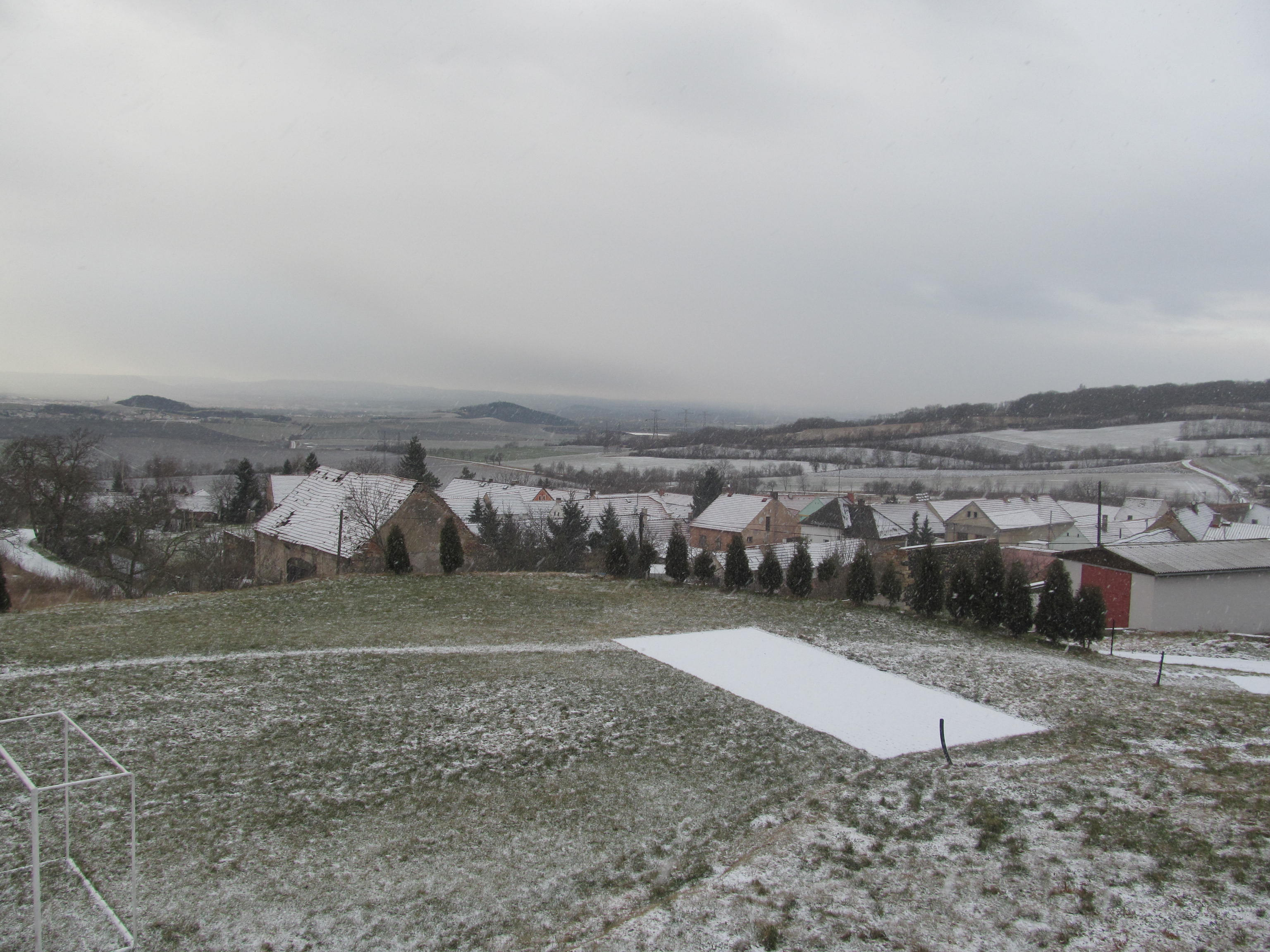 Chraberce - total view